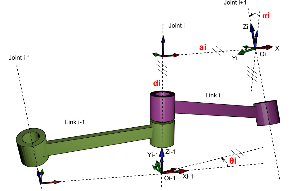 This is the traditional DH (Denavit–Hartenberg) parameter description. The main 3D models were generated from Blender, and the annotation lines and texts were added by Inkscape.